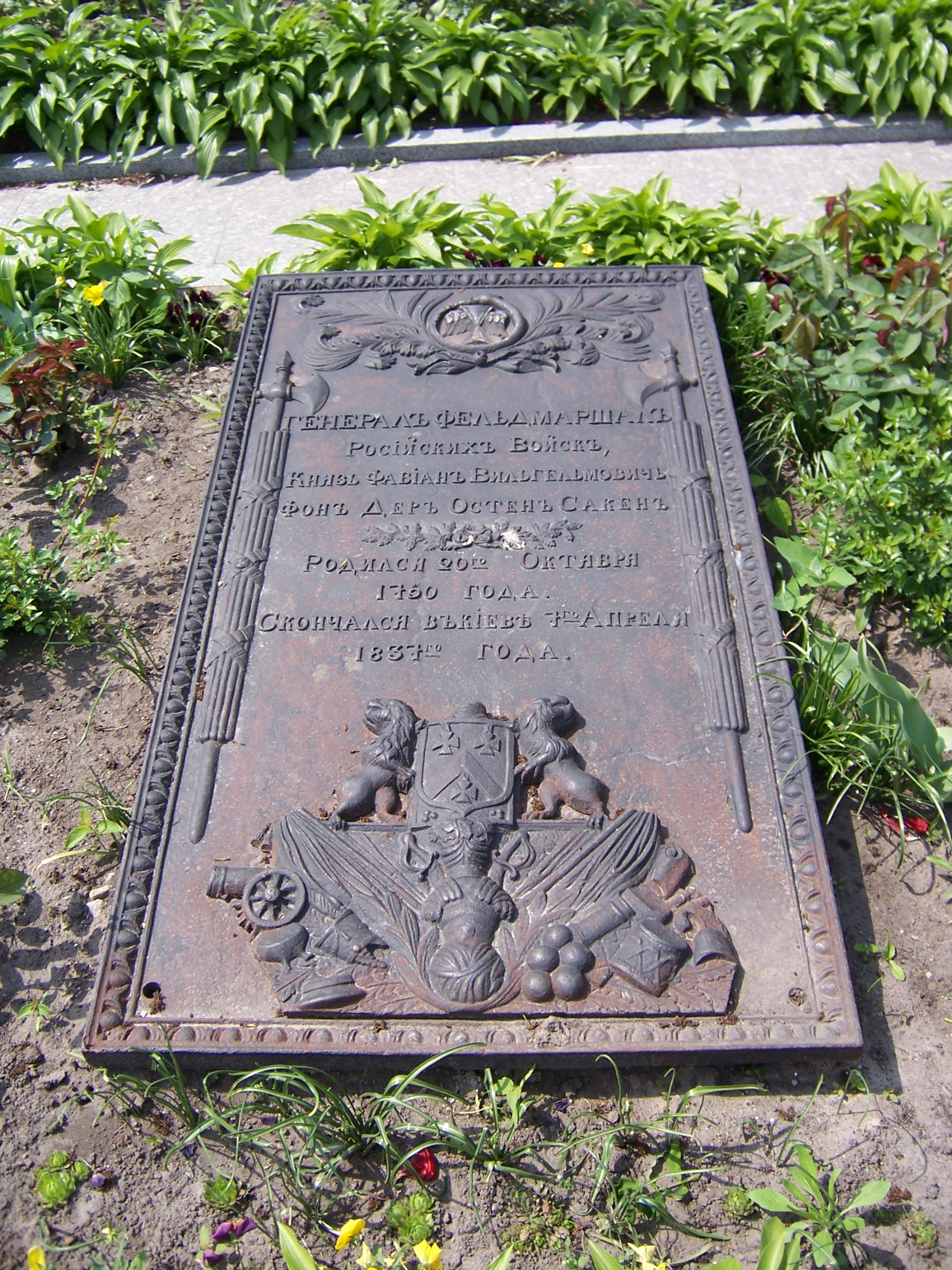 Grave of General Field Marshal Prince Fabian Gottlieb von der Osten-Sacken, cemetery of the Church of the Virgin Nativity, lower part of the Kiev Pechersk Lavra (Ukraine)